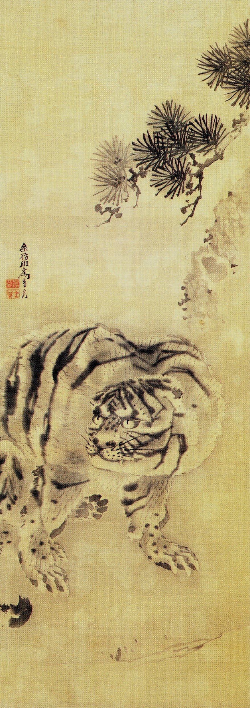 Tiger by Gan Ryô